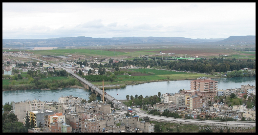 BİRECİK(GENEL GÖRÜNÜM)